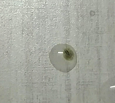 It is the pic of Argulus foliaceus which if feeding on my gold fish